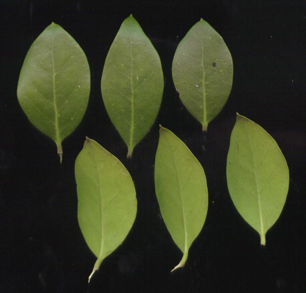 Leaves of Olea capensis growing at Hamerkop in the Magaliesberg in South Africa